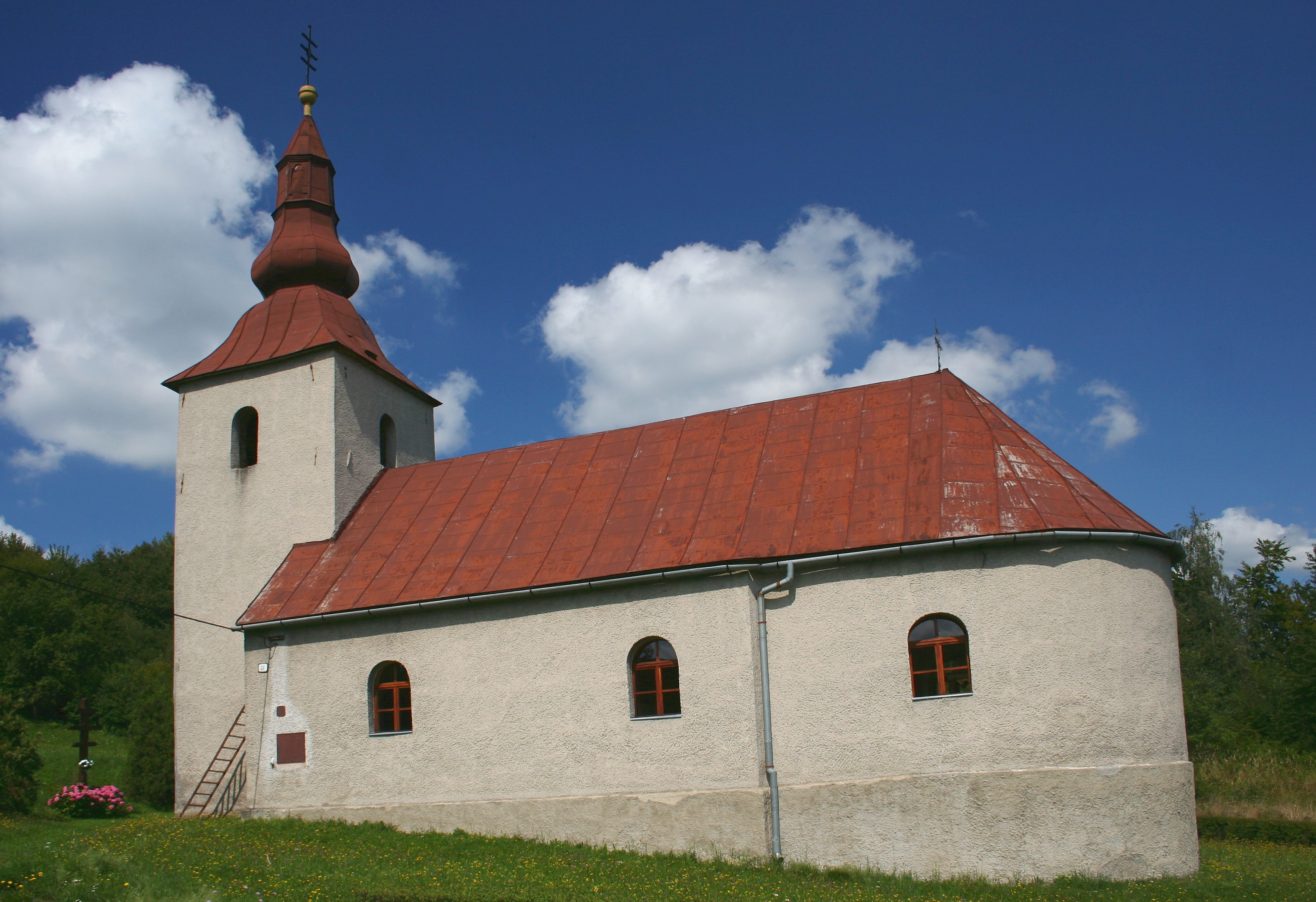 cerkiew in Detrík, Slovakia